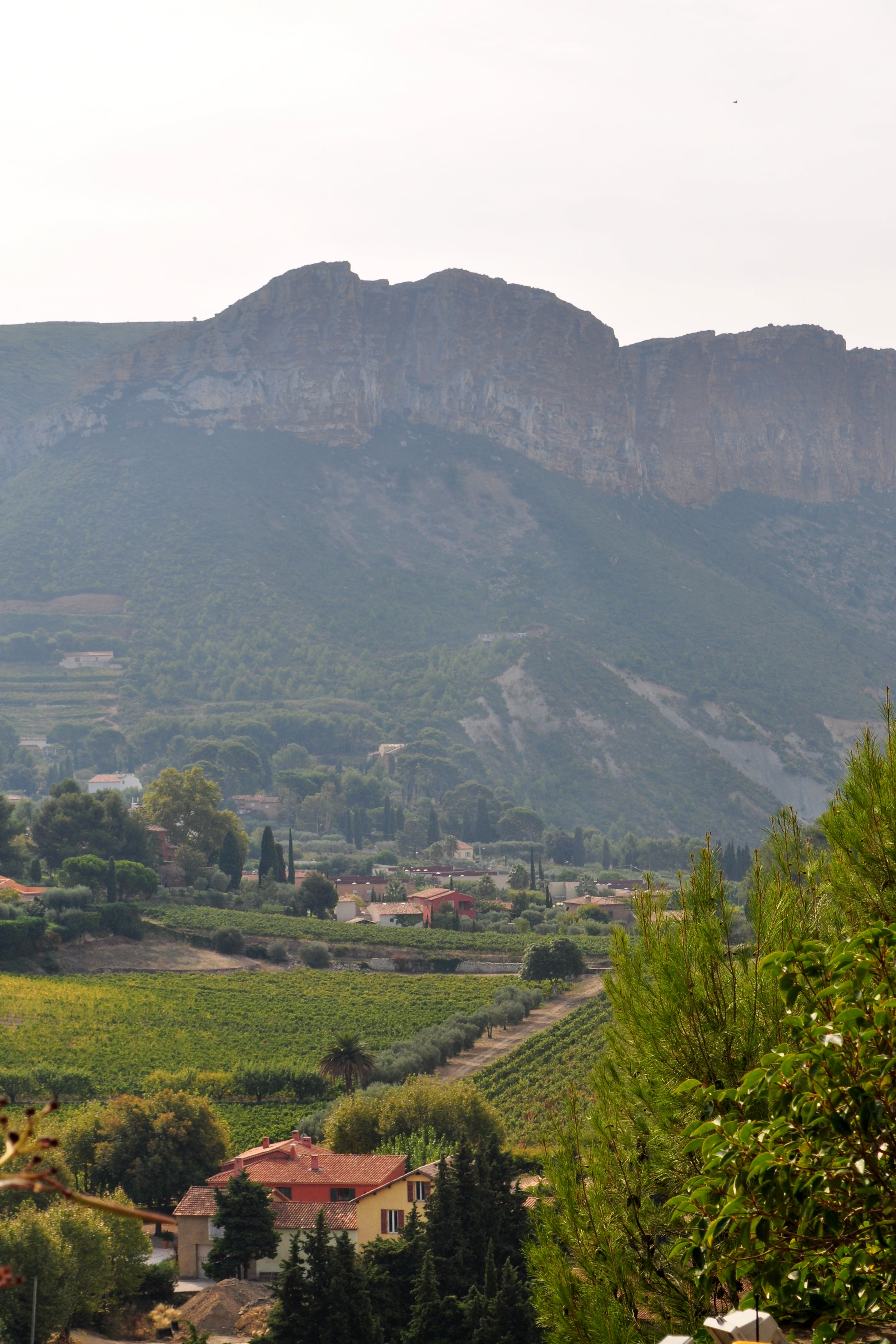 Vineyard in the French wine growing region of Cassis in Provence.